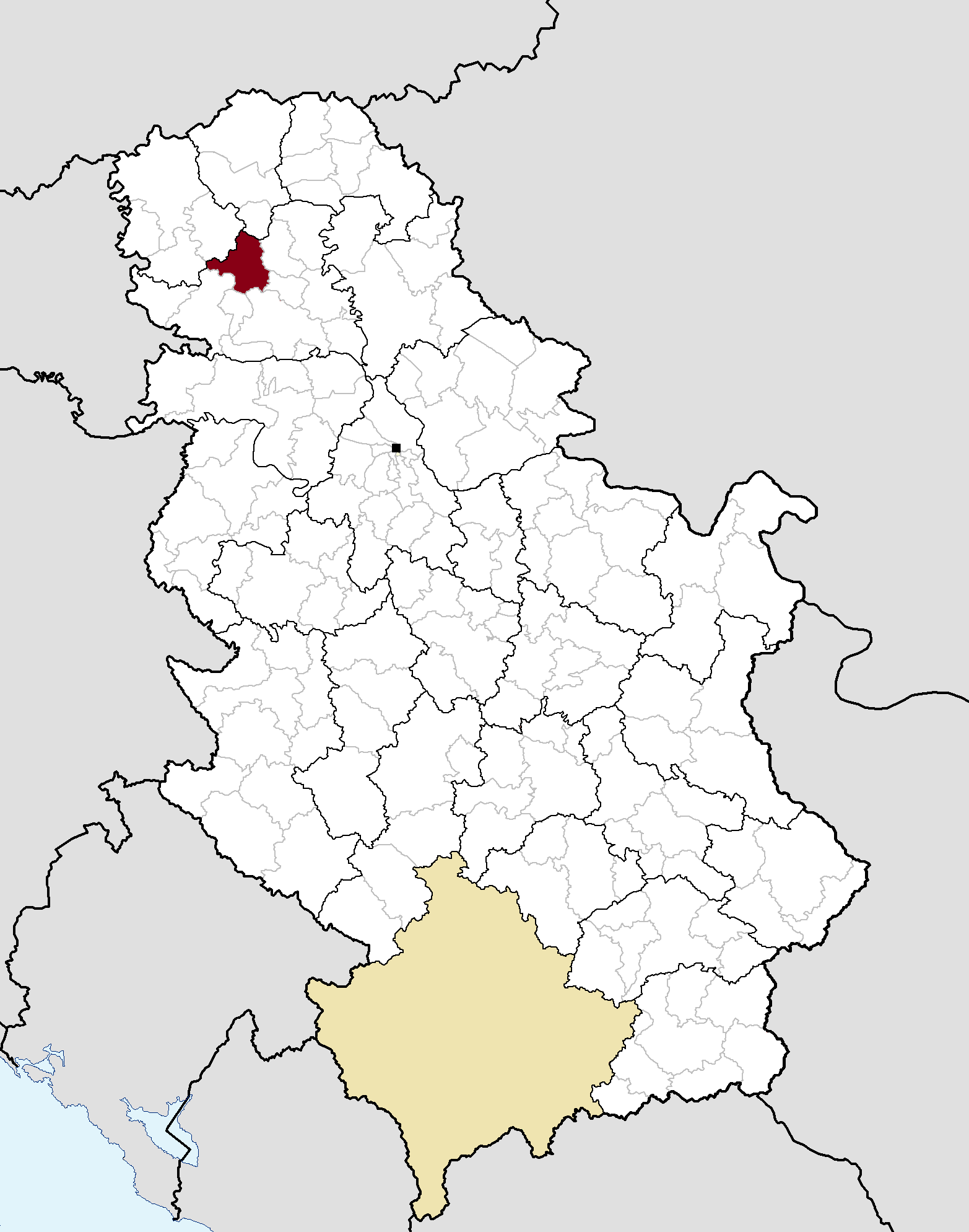 Municipal location in Serbia